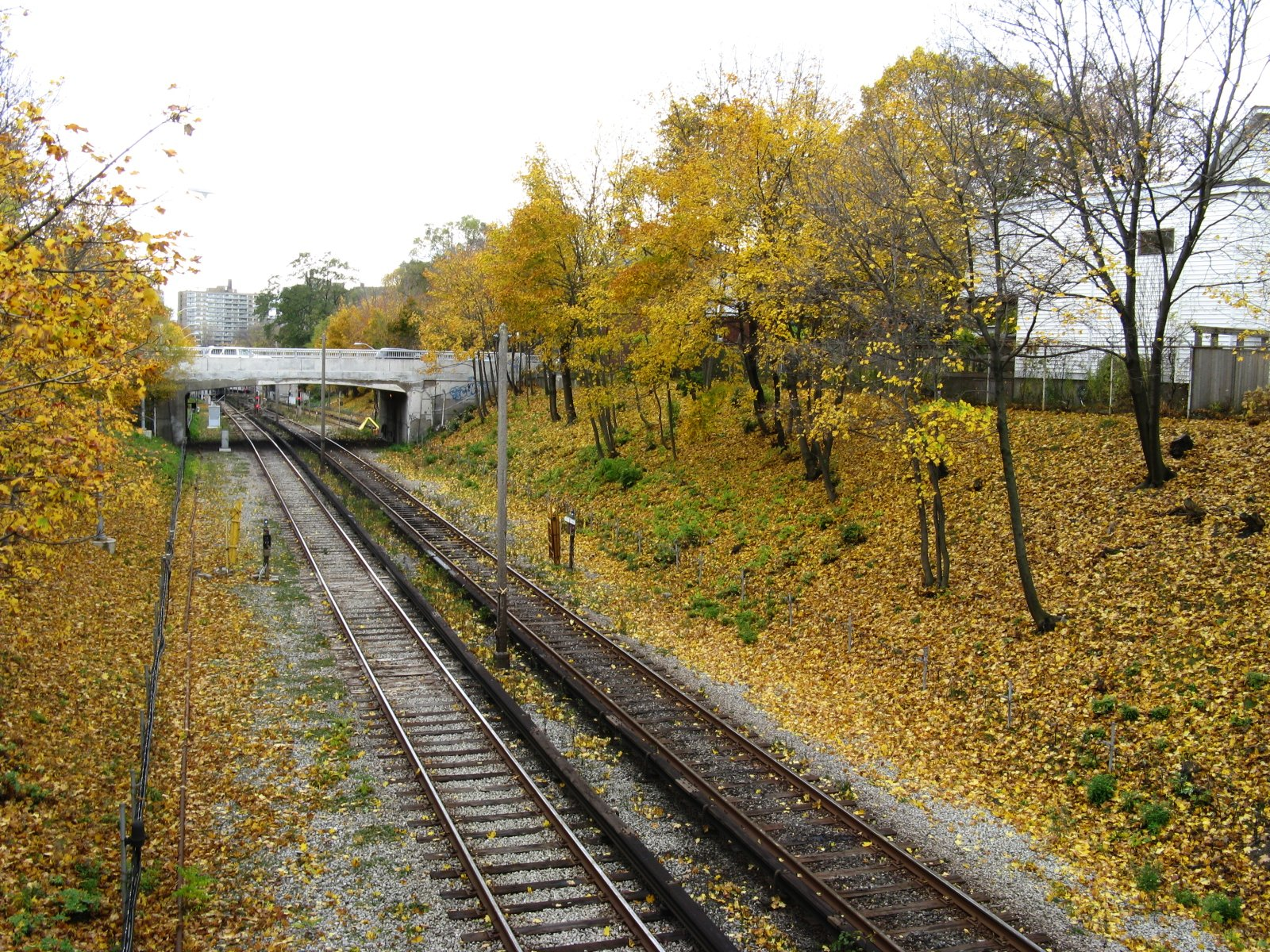 Looking south towards Lola Road, on a open cut part of the Yonge subway line in Toronto. The section of track shown here is midway between Eglinton and Davisville stations.